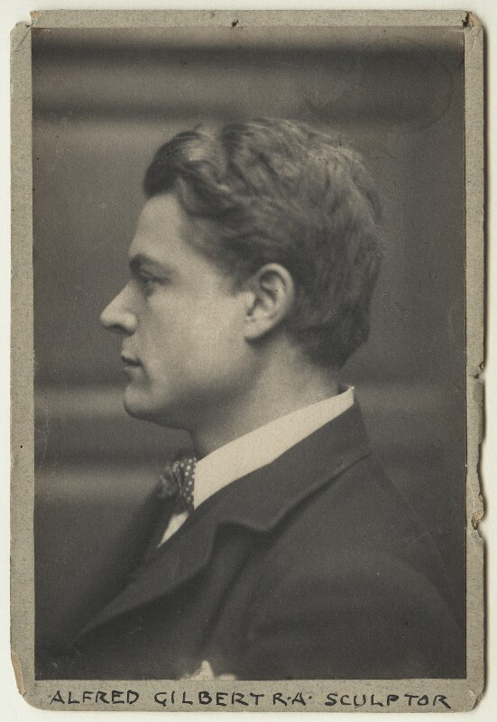 Sir Alfred Gilbert by Frederick Hollyer / platinotype cabinet card, 1887 / 6 in. x 3 7/8 in. (152 mm x 100 mm) image size / Given by Royal Institute of British Architects: London: UK, 1940 / Photographs Collection NPG x13183